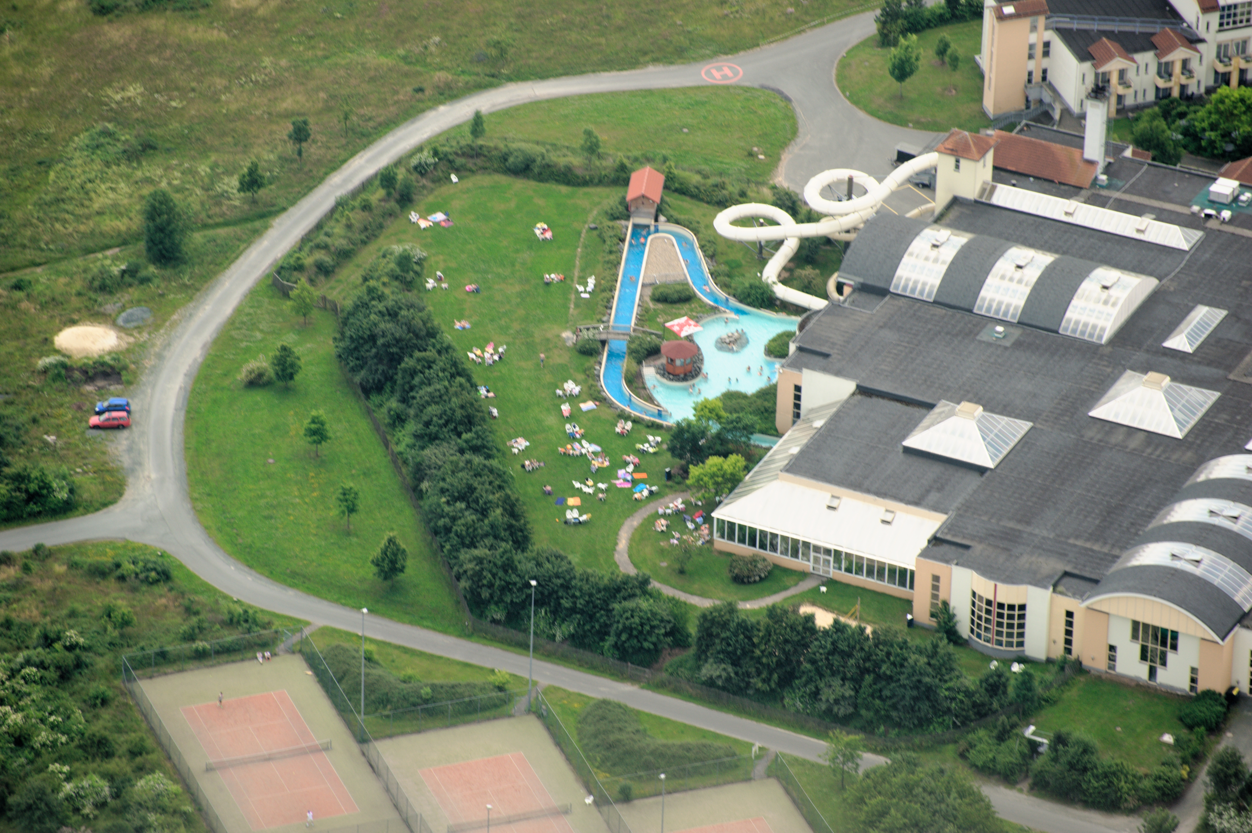 Fotoflug Sauerland-Ost: Erlebnisbad „Aqua Mundo“ in Medebach. The making of this document was supported by the Community-Budget of Wikimedia Germany. in Medebach.